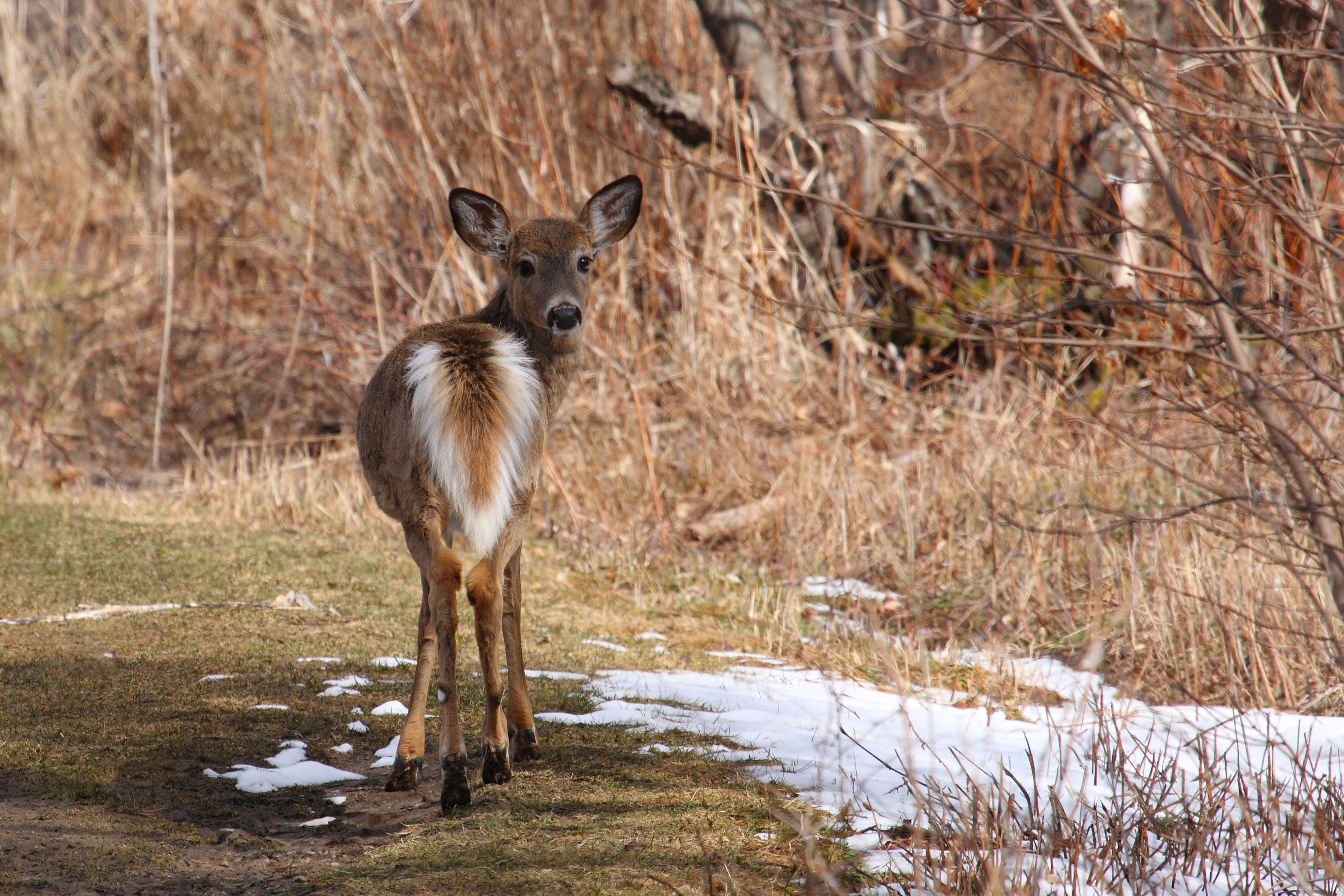 White-tailed deer, Cap Tourmente National Wildlife Area, Quebec, Canada.